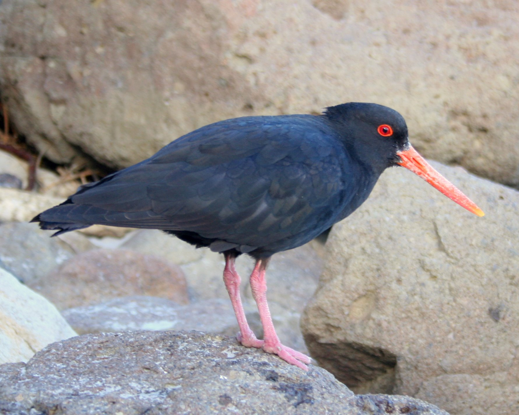 Variable Oystercatcher, Haematopus unicolor, wild bird.